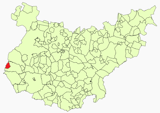 Location map of Cheles